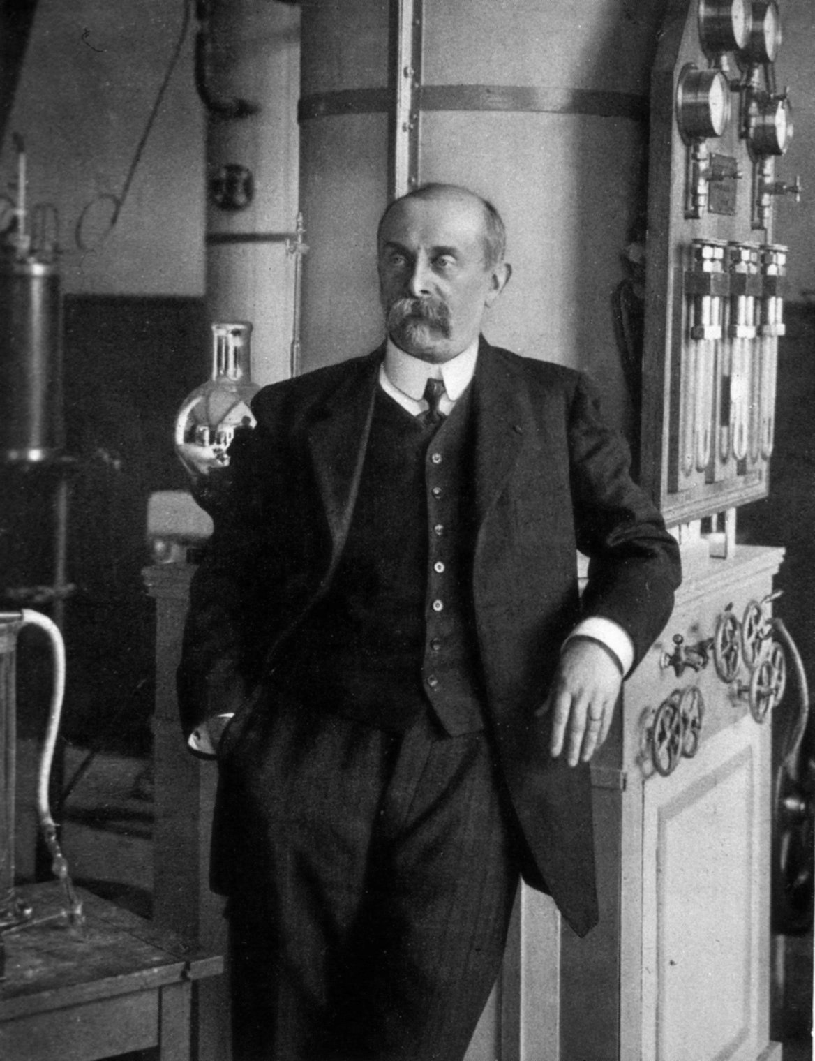 Jacques-Arsène d'Arsonval (June 8, 1851 – December 13, 1940)